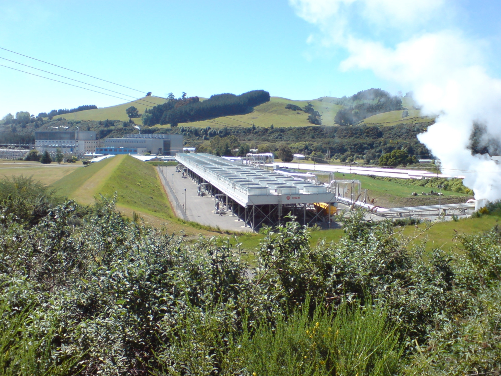 The Wairakei geothermal power plant, Region of Waikato, New Zealand. In the left rear are the two main blocks of the power plant. The large raised structure in front houses the fans and piping whereby the working fluid of the binary plant is cooled and condensed with air, rather than river water. The binary plant uses water/steam that has become too cool for the main generation use, but with modern technology can still create power at a lesser rate.